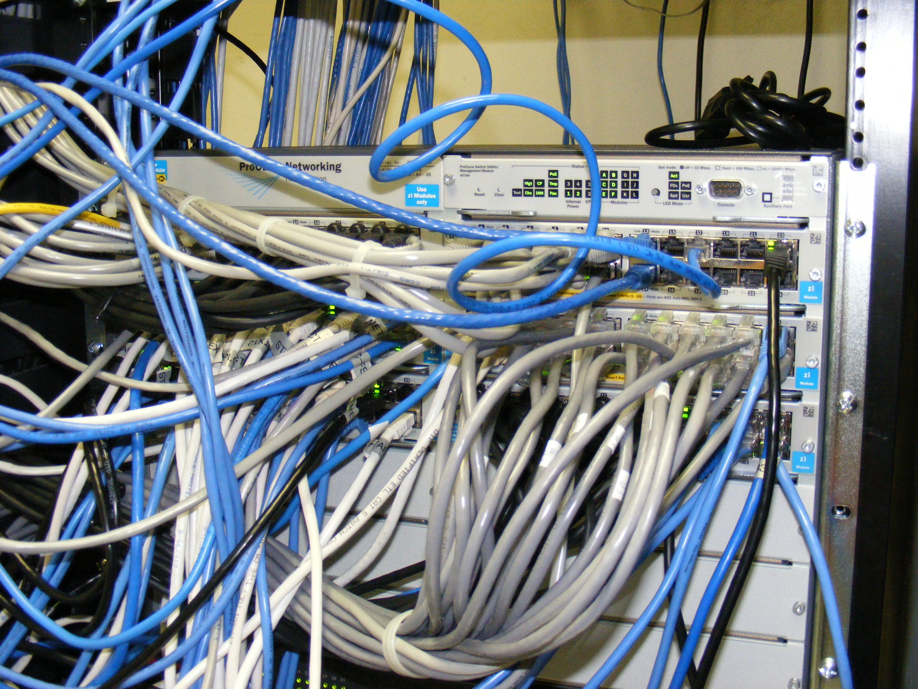 A gigabit HP-ProCurve network switch in a nest of Cat5 cables.